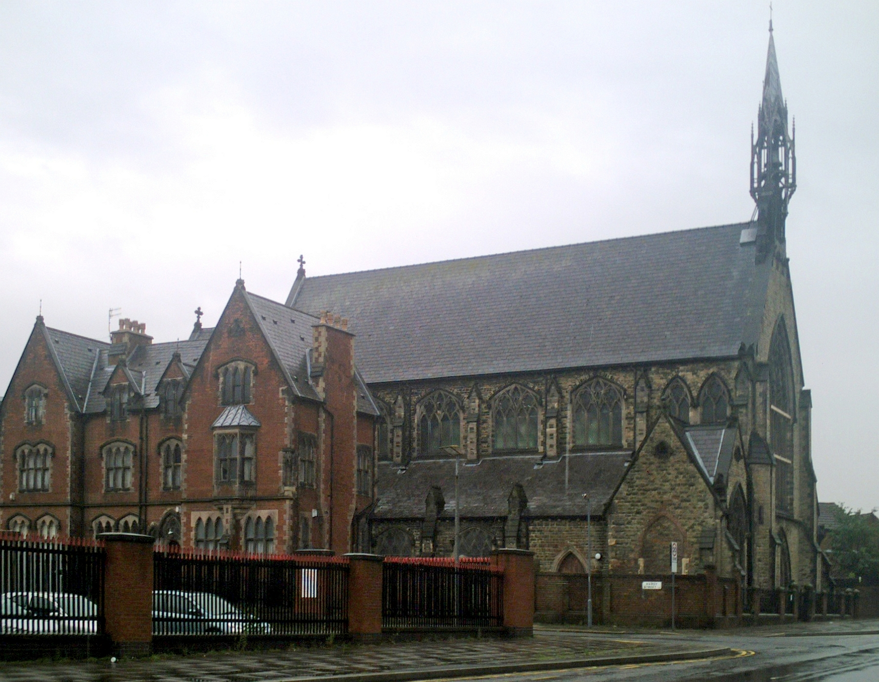 RC Church of St Vincent de Paul, St James Street, Liverpool. Designed by E. Welby Pugin and opened in August 1857.